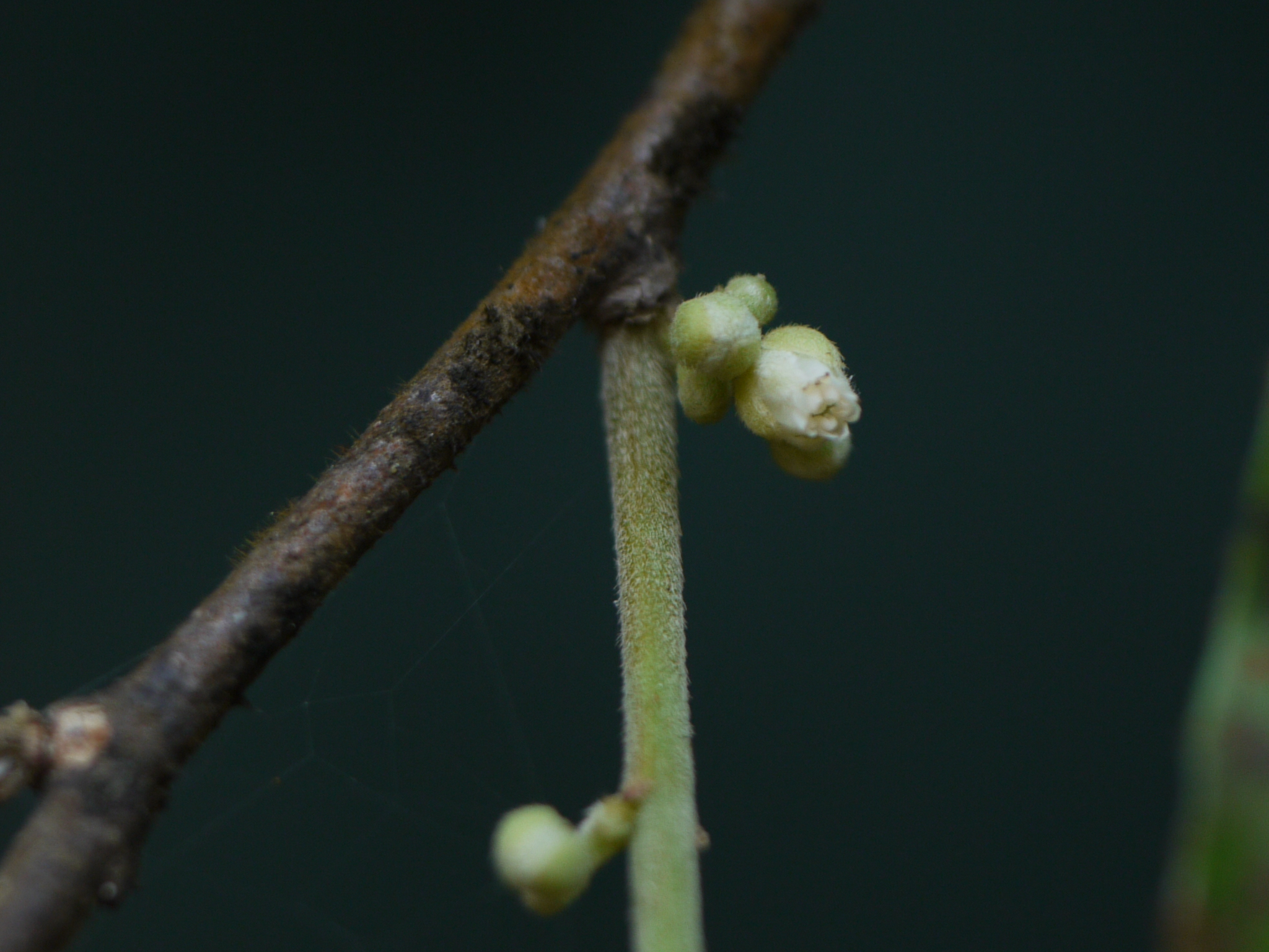 Dichapetalaceae (poison-leaf family) » Dichapetalum gelonioides (Roxb.) Engl. dy-kah-PET-uh-lum -- from the Greek dicha (divided in two) and petalum (petals) ¿ jel-oh-nee-OY-dees ? -- similar to features of genus Gelonium commonly known as: dichapetalum, gelonium poison-leaf Native to: Indomalaysia References: Flowers of India • Biotik • The Western Ghats Portal